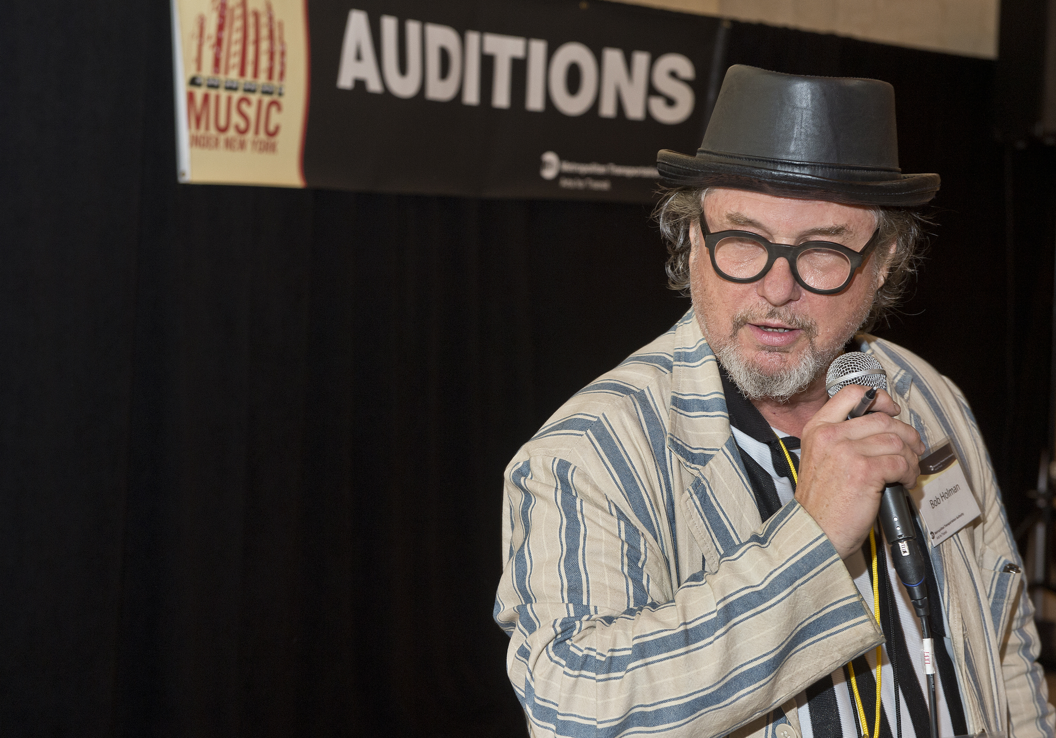 Bob Holman as MC of the 25th annual auditions for the Music Under New York program on May 16, 2012, at Grand Central Terminal.